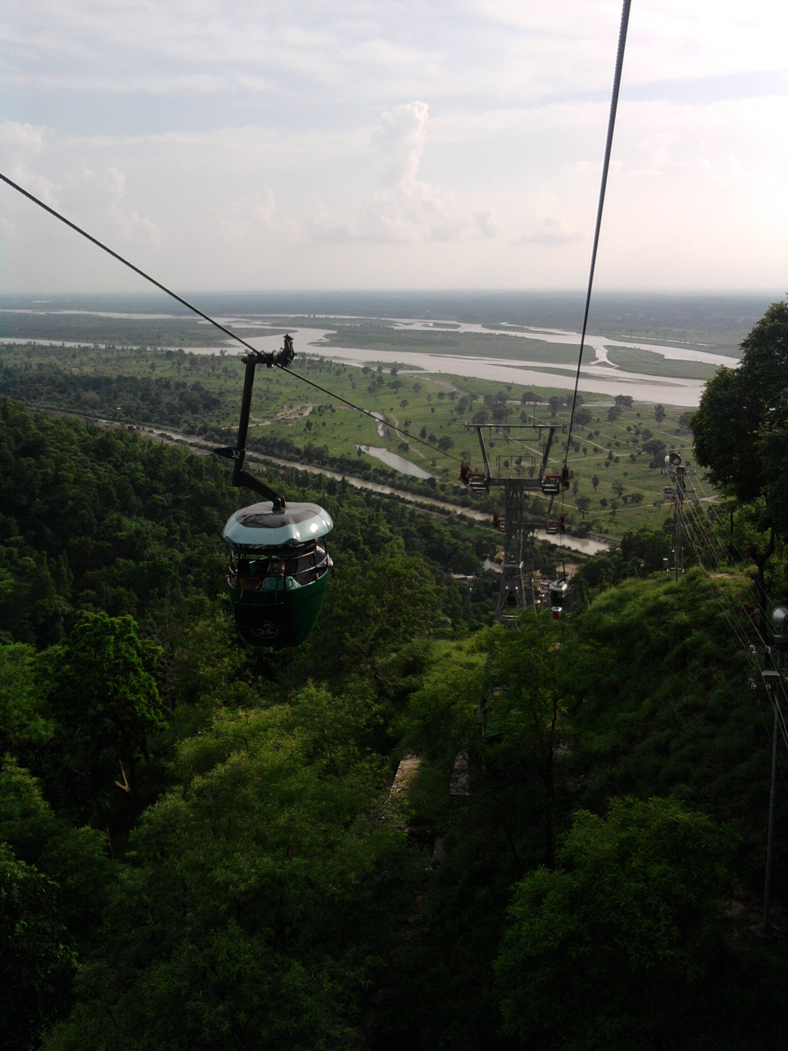 Cable car at haridwar (ropeway to manasa devi-temple)